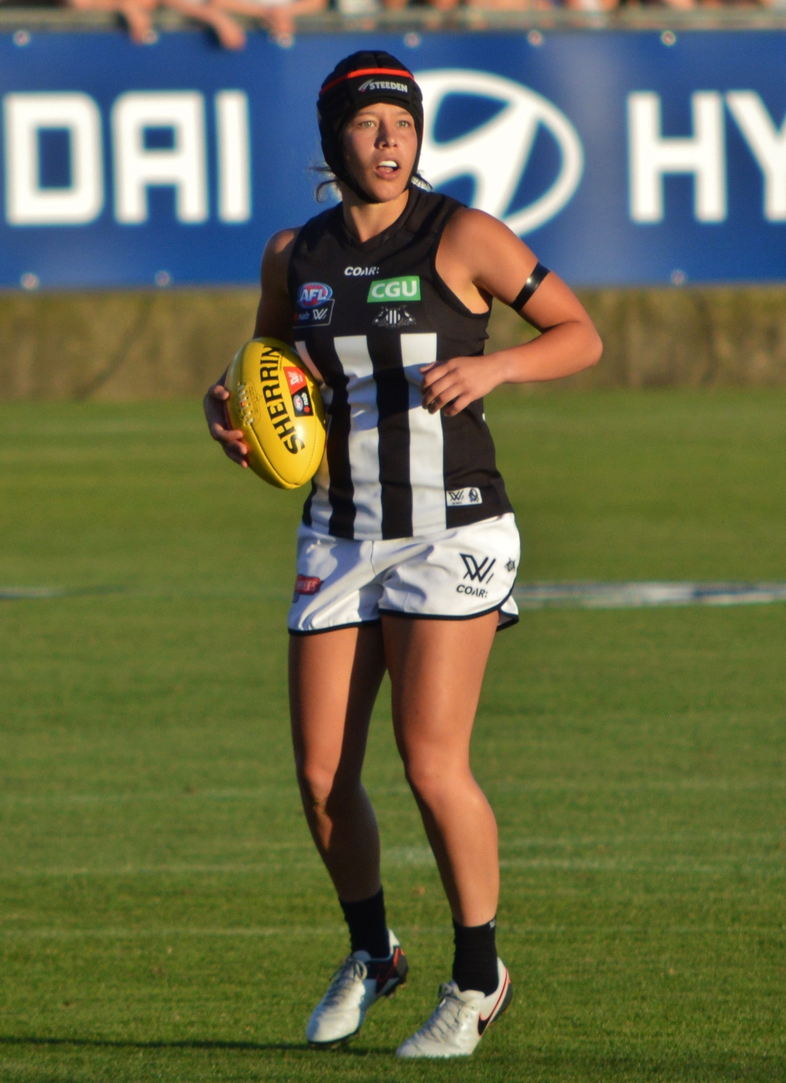 Brittany Bonnici during the round 1 AFL Women's match between Carlton and Collingwood in February 2017.